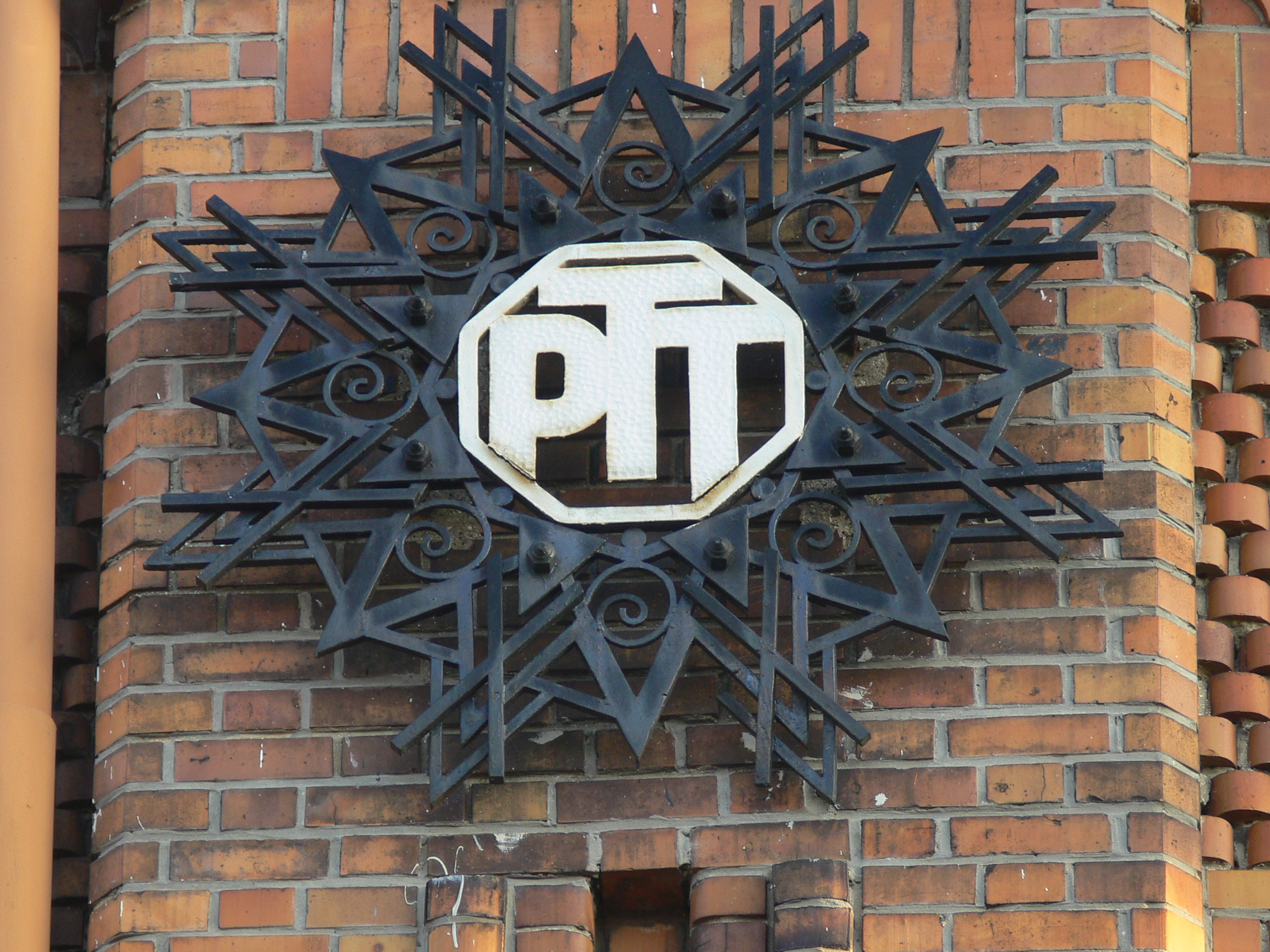 palatine uvula